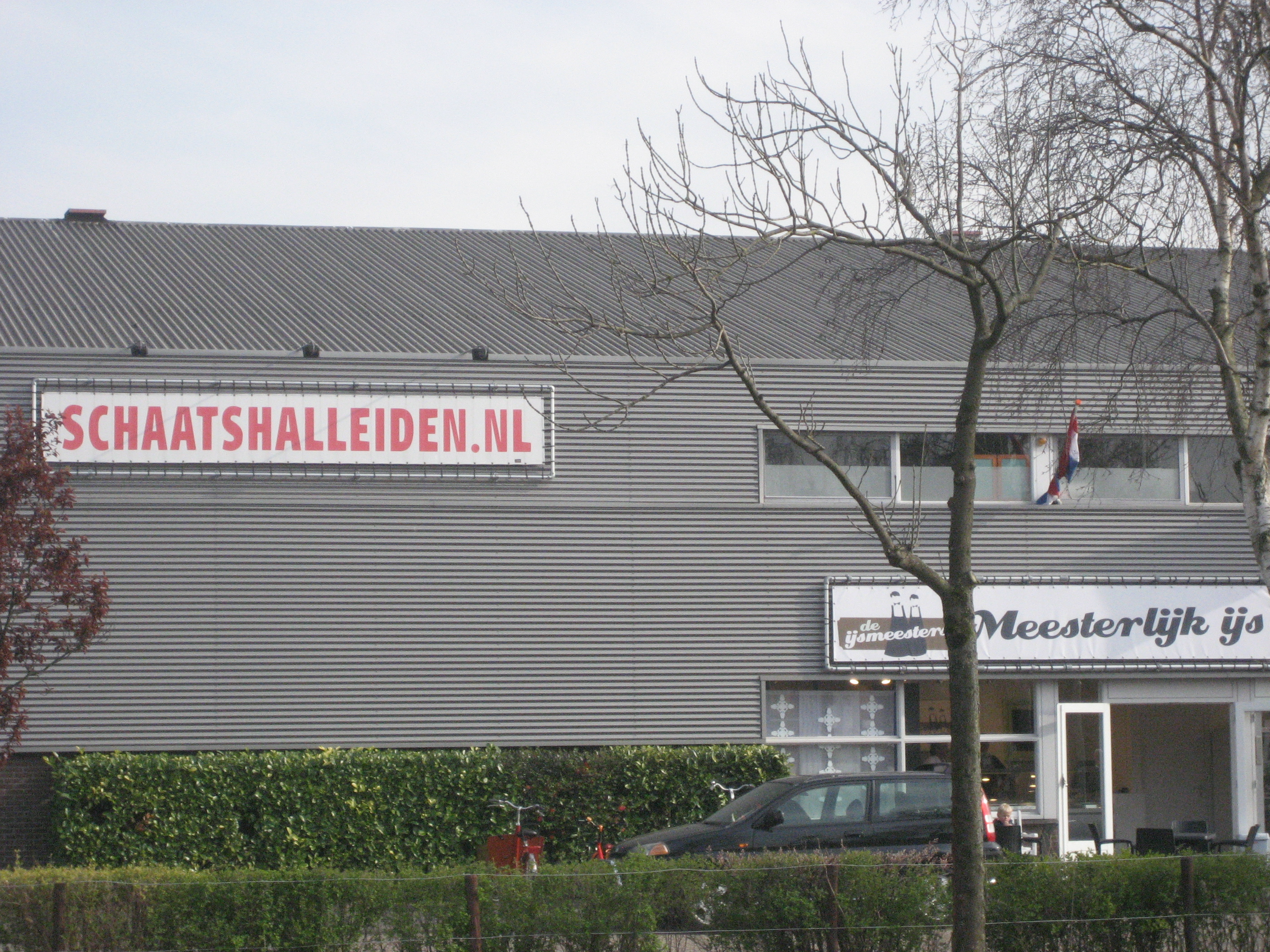 Ice skating hall, Vondellaan, Leiden (The Netherlands)